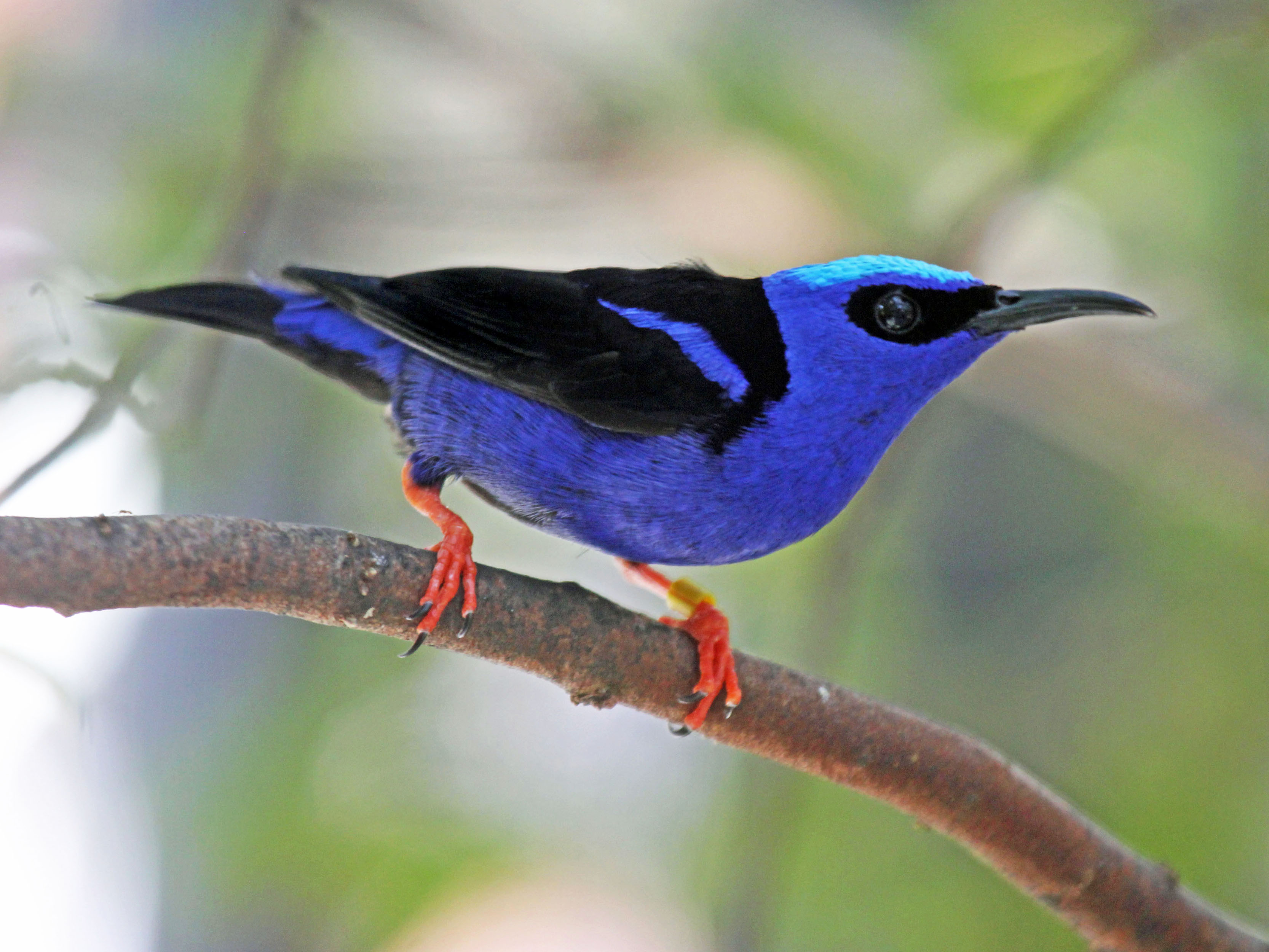 Red-legged Honeycreeper (Cyanerpes cyaneus) - Butterfly World, Florida